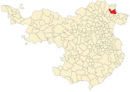 Llançà